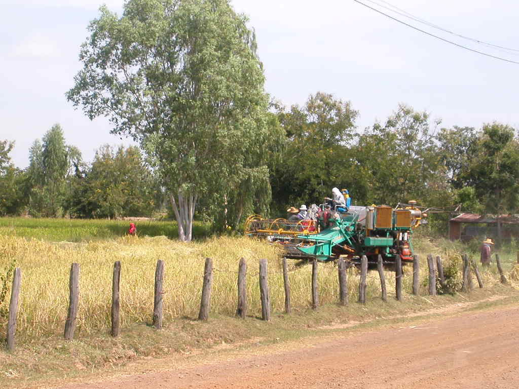 Thai agricultural machines; combine harvester in Thailand